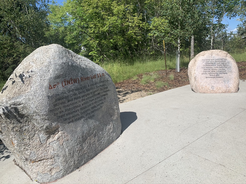 Rocks at the entrance to the Indigenous Art Park ᐄᓃᐤ (ÎNÎW) River Lot 11∞